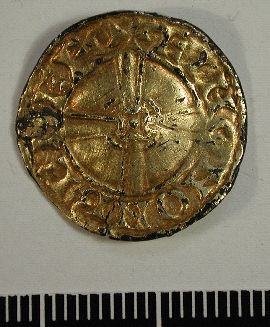 2002T277, Sudbury, Suffolk This was added from the site called under the name portableantiquities. See source for details.